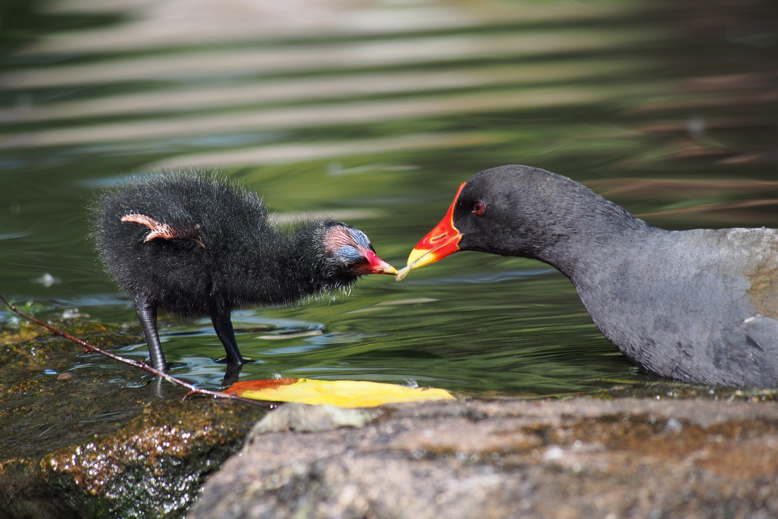 Moorhen, Gallinula chloropus, feeding regurgitated food to young chick.